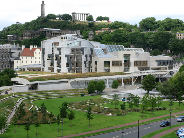 The Scottish Parliament Viewed from the Radical Road. The Old Royal High School and Calton Hill can also be seen in the background.